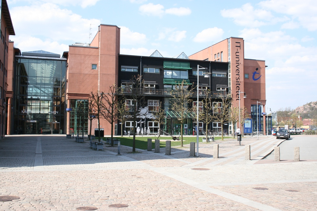 Main building of the IT University at campus Lindholmen in Gothenburg